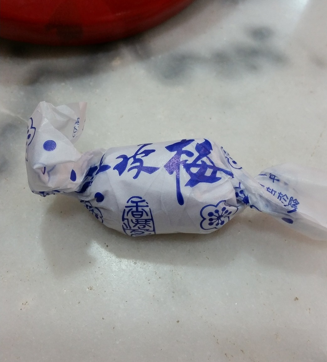 Chenpimei is a preserved candied fruit food.